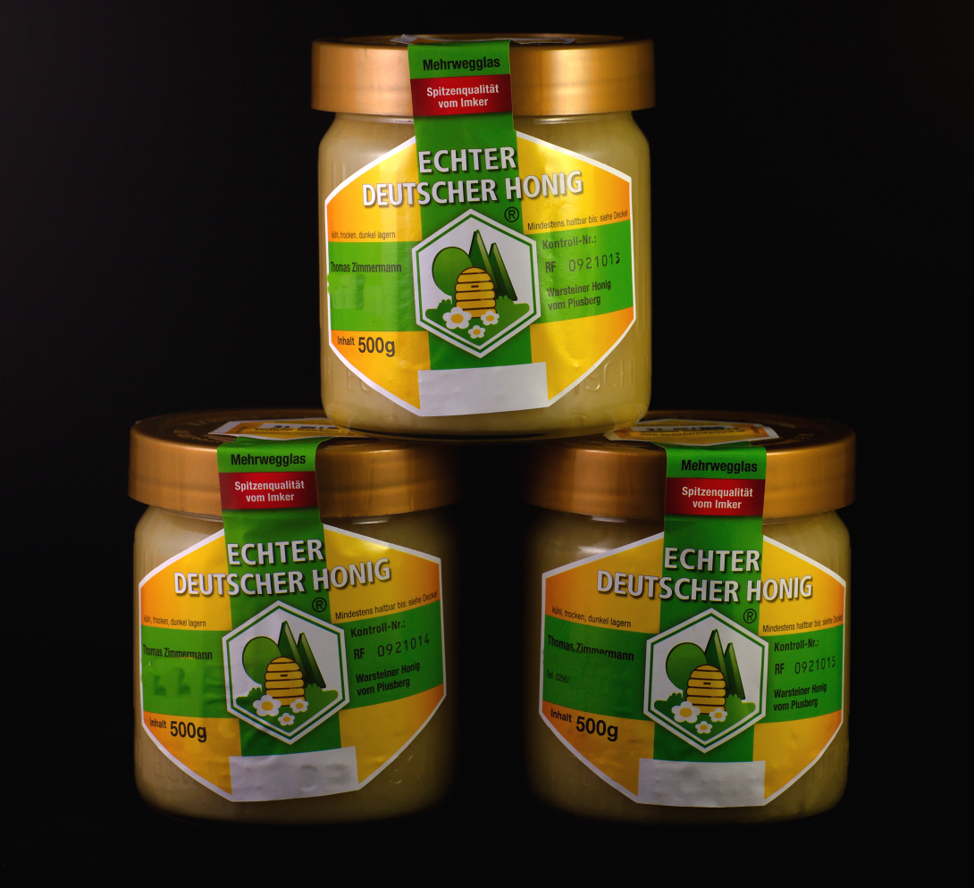 Some Honeypots, produced by my very busy bees in the year 2013